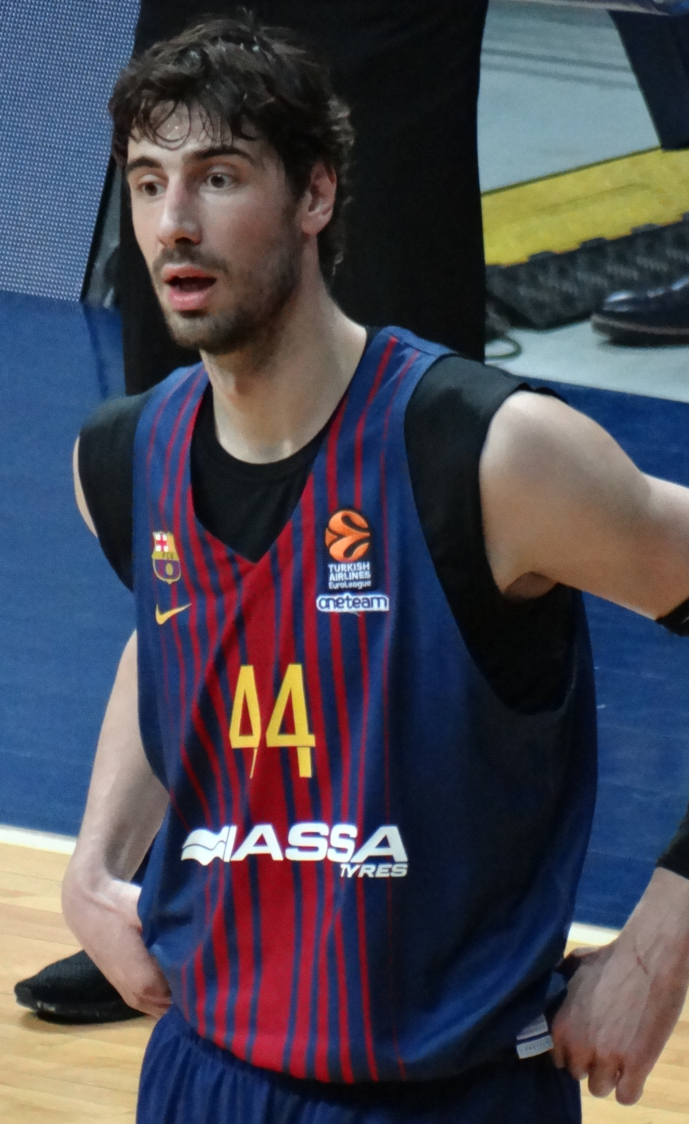 Ante Tomić (basketball) 44 FC Barcelona Bàsquet 20180126